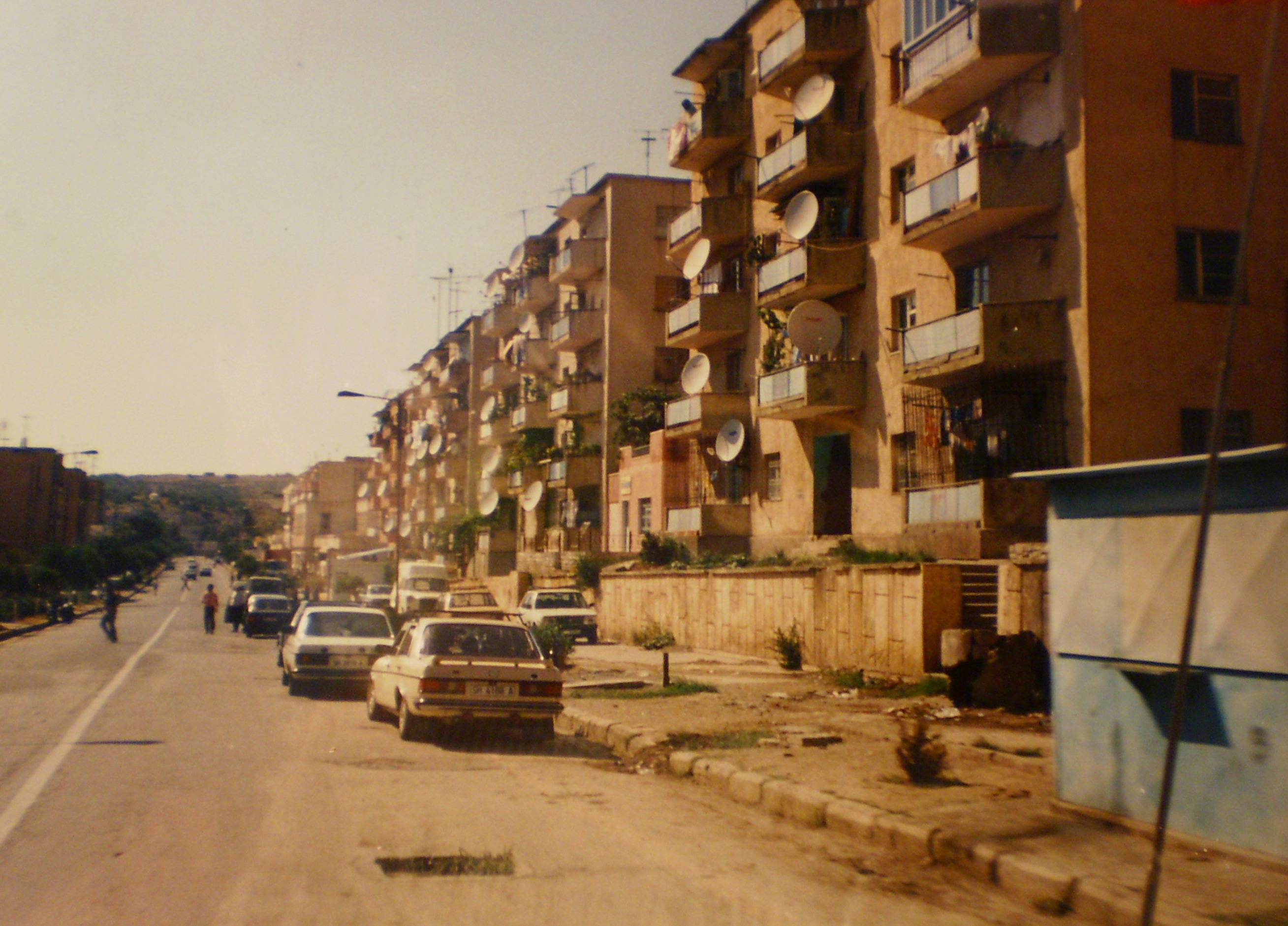 Apartment block in Lezhë, Albania